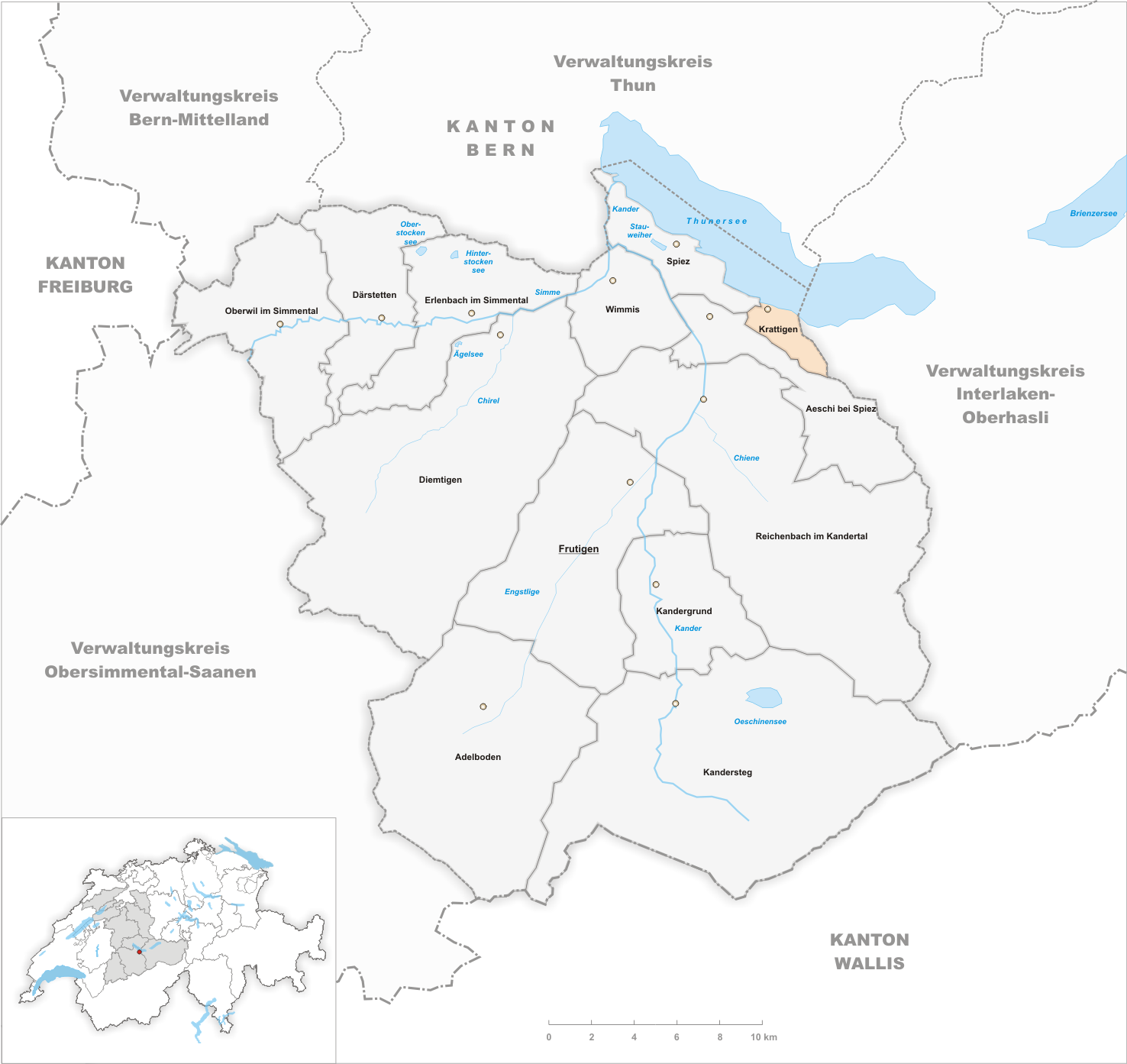 Municipality Krattigen